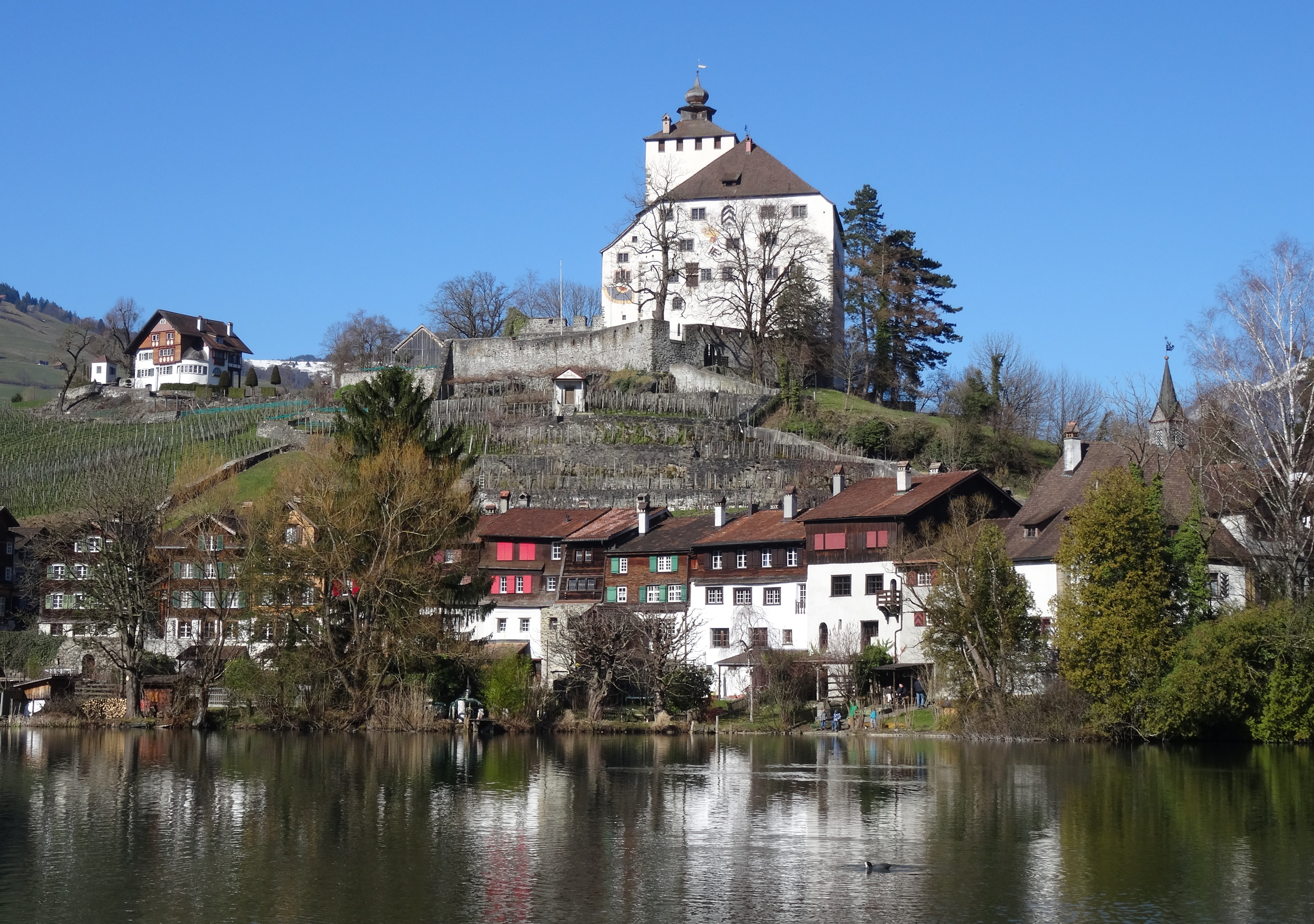 Werdenberg castle